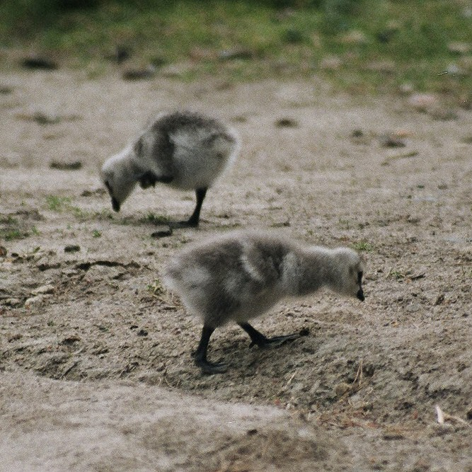 Barnacle Goose in Korkeasaari Zoo, Helsinki, Finland